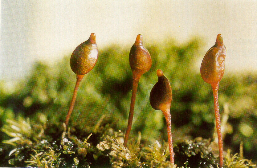 Buxbaumia aphylla, Clearwater National Forest, USA